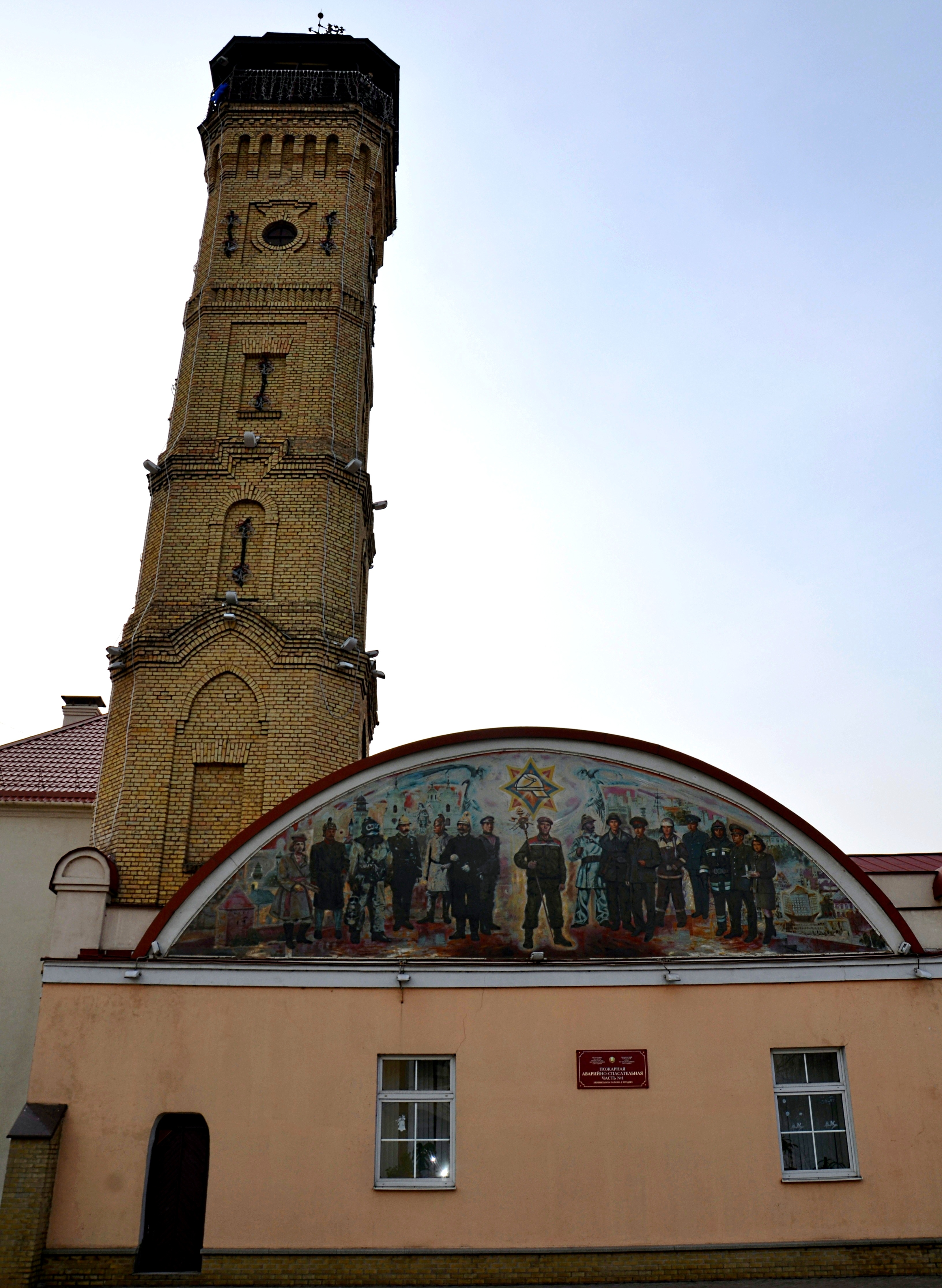 Mural painting "Rescuers – history and tradition of courage" on the facade of the Museum of the history of the fire service Grodno. Artist – Vladimir Kachan.